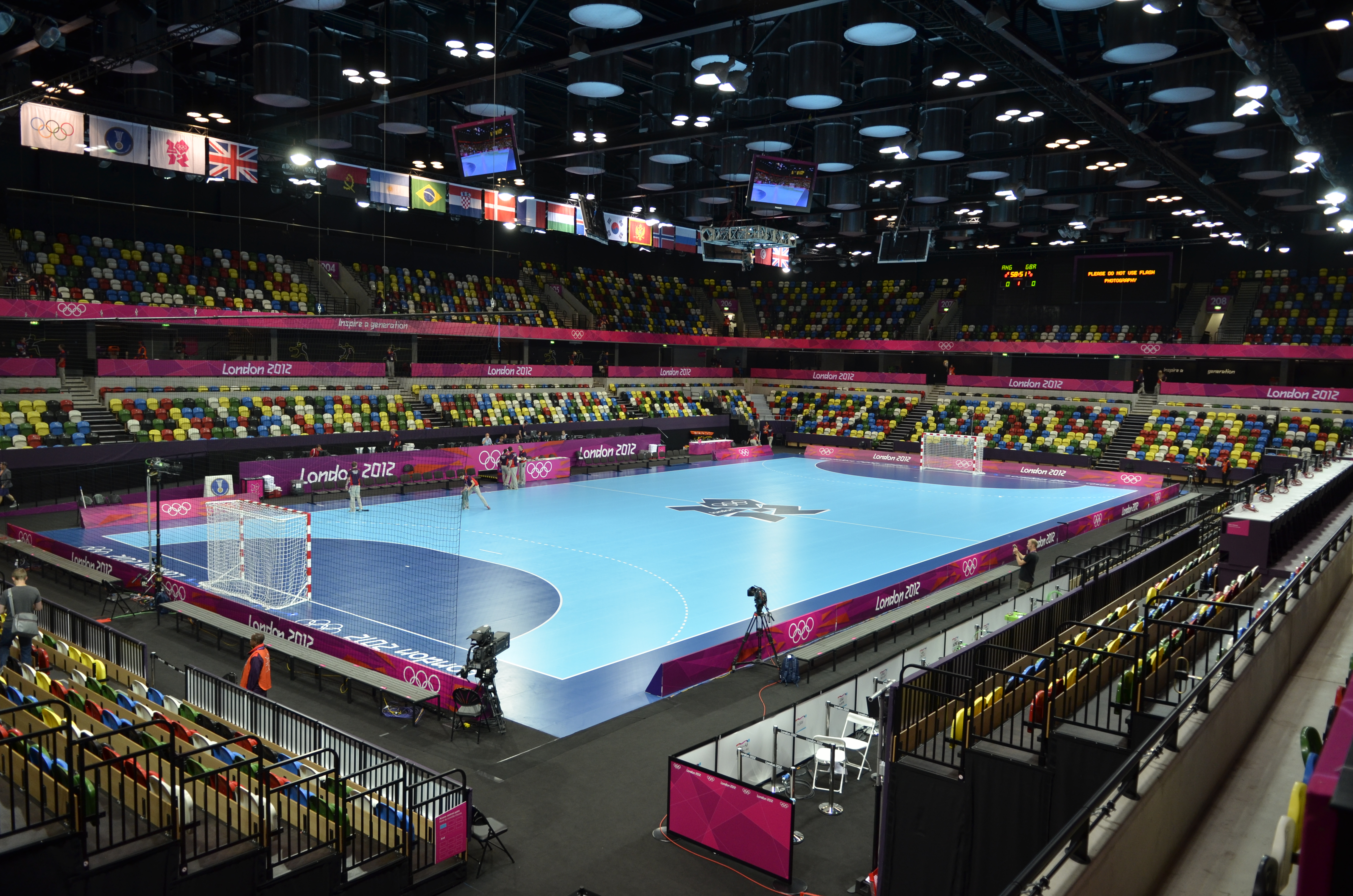 Location, Handball at the 2012 Summer Olympics